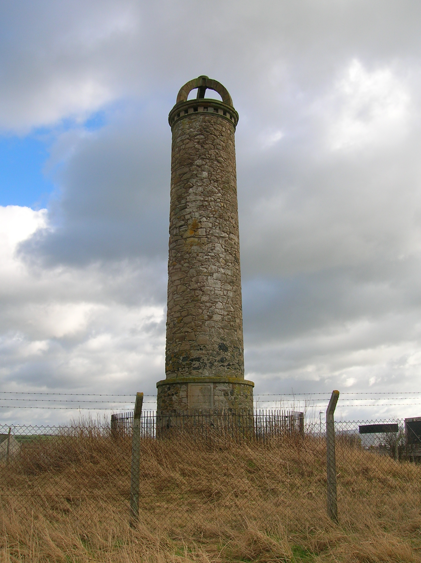 Shaw Monument, North facing side, Prestwick, South Ayrshire, Scotland.